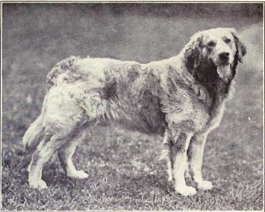 Russian Yellow Retriever from 1915